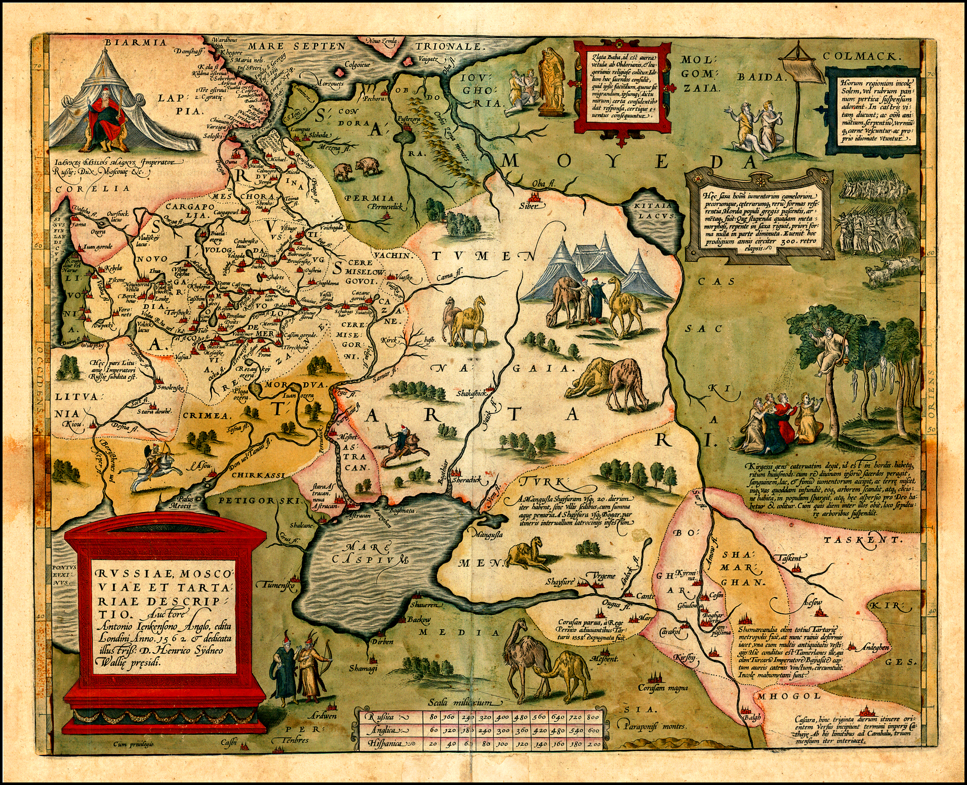 From a manuscript by Anthony Jenkinson, 1562, in Abraham Ortelius, Theatrum Orbis Terrarum, English edition as The Theatre of the Whole World, London 1606